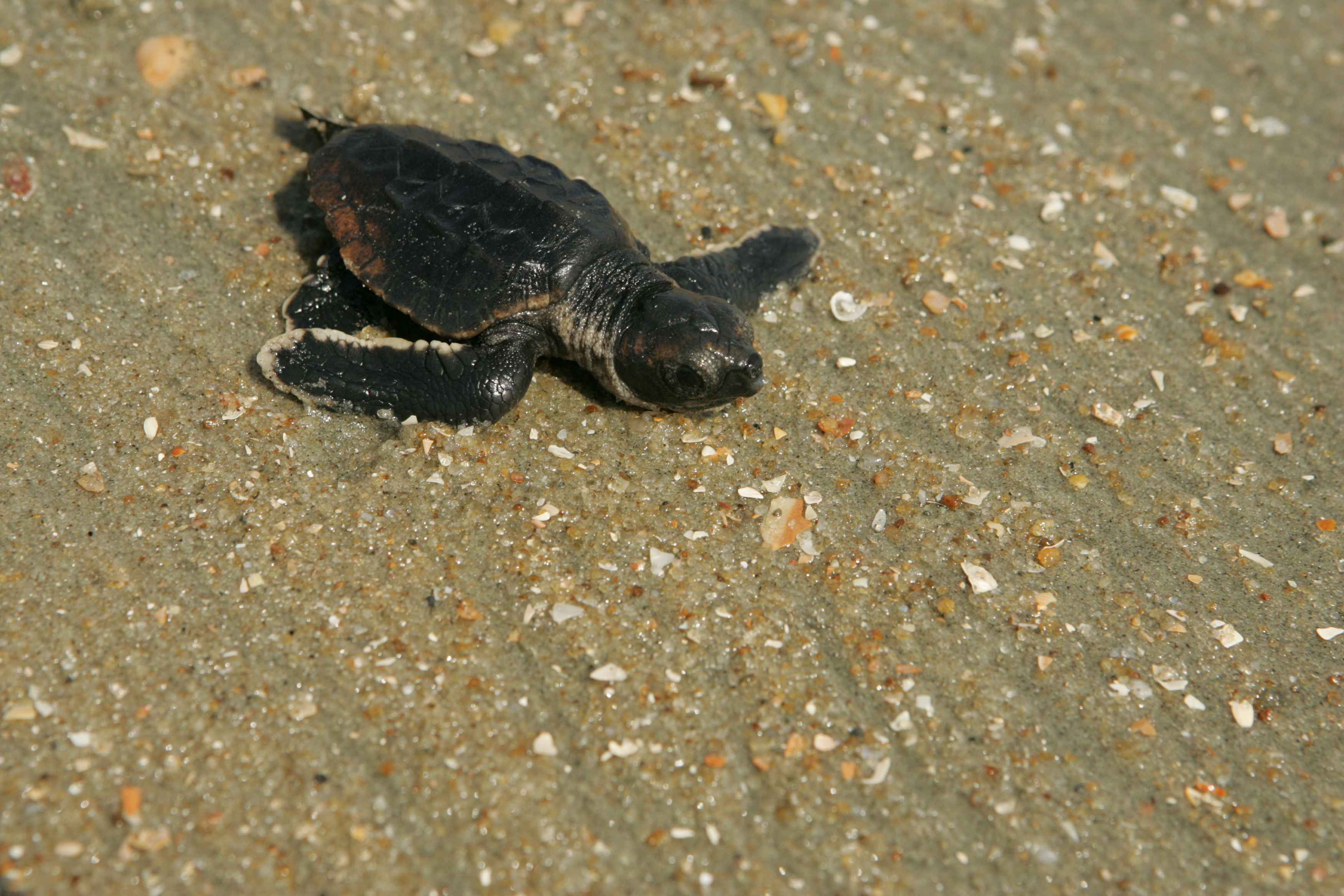 Image title: Baby loggerhead turtle makes its way to the ocean from the nest Image from Public domain images website